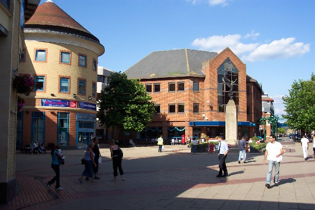 Woking Town Square. In 1838 when the railway arrived, Woking town centre was open heathland. The town developed in a fairly piecemeal fashion and had reached a form of completion by the mid-1980s, when redevelopment began again. A short-lived town centre swimming pool disappeared as part of those changes, to be replaced by the Pool in the Park. The present form of the town centre, including the modern library, the Peacocks shopping centre, and the refashioned Wolsey Way centre date from that time.